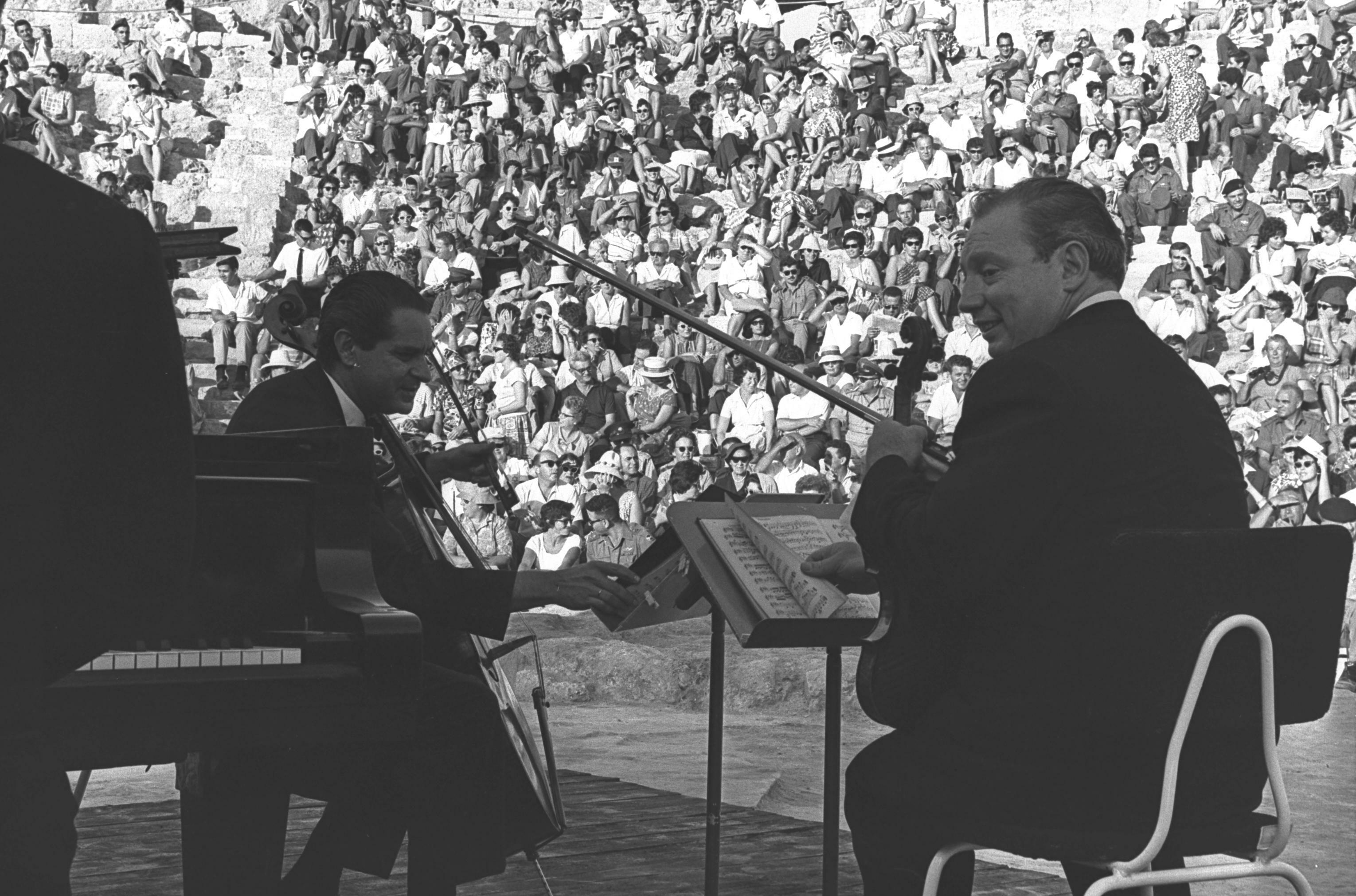 L-R, EUGENE ISTOMIN, LEONARD ROSE, ISAAC STERN PLAYING BEETHHOVEN "GHOST" TRIO AT THE ROMAN AMPHITHEATR AT CAESAREA.